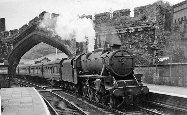 Conway Station. View eastward, towards Llandudno Junction and Chester; ex-London & North Western Chester - Bangor and Holyhead main line. The view shows how the Victorian railway magnates had to compromise with those who objected to the building of a railway virtually through the ancient Conwy Castle. Stanier Class 5 4-6-0 No. 44765 (modified with a double-chimney) comes in with the 16.26 Crewe - Bangor train.